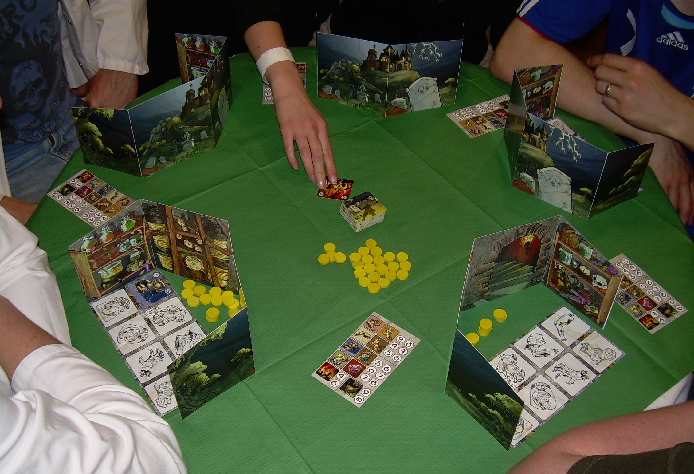 Jackson Pope, personal